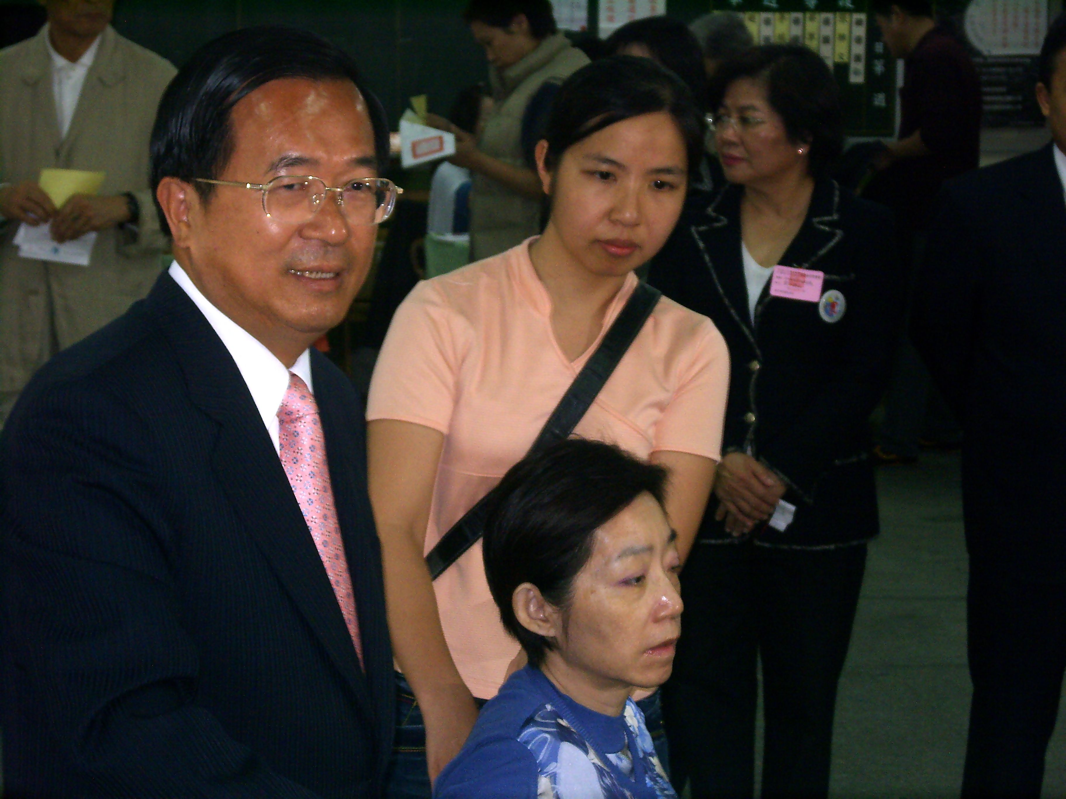 2008 Taiwan Legislative Election: The First Family in Voting.